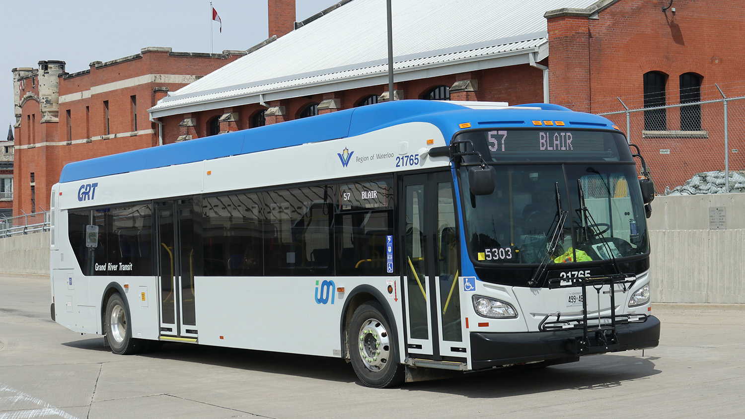 Grand River Transit (ION) 2017 New Flyer XD40 #21765 has been seen on route 57.